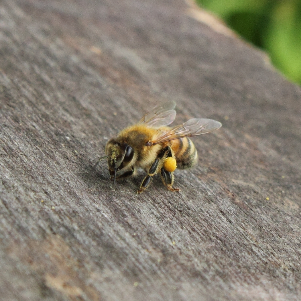 Ligustica italian bee carrying pollen collected from flowers